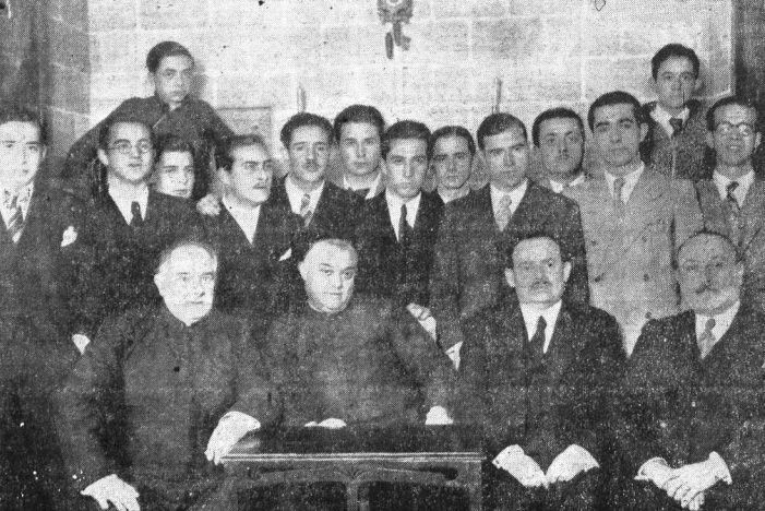 Student conference in Spain, 1935